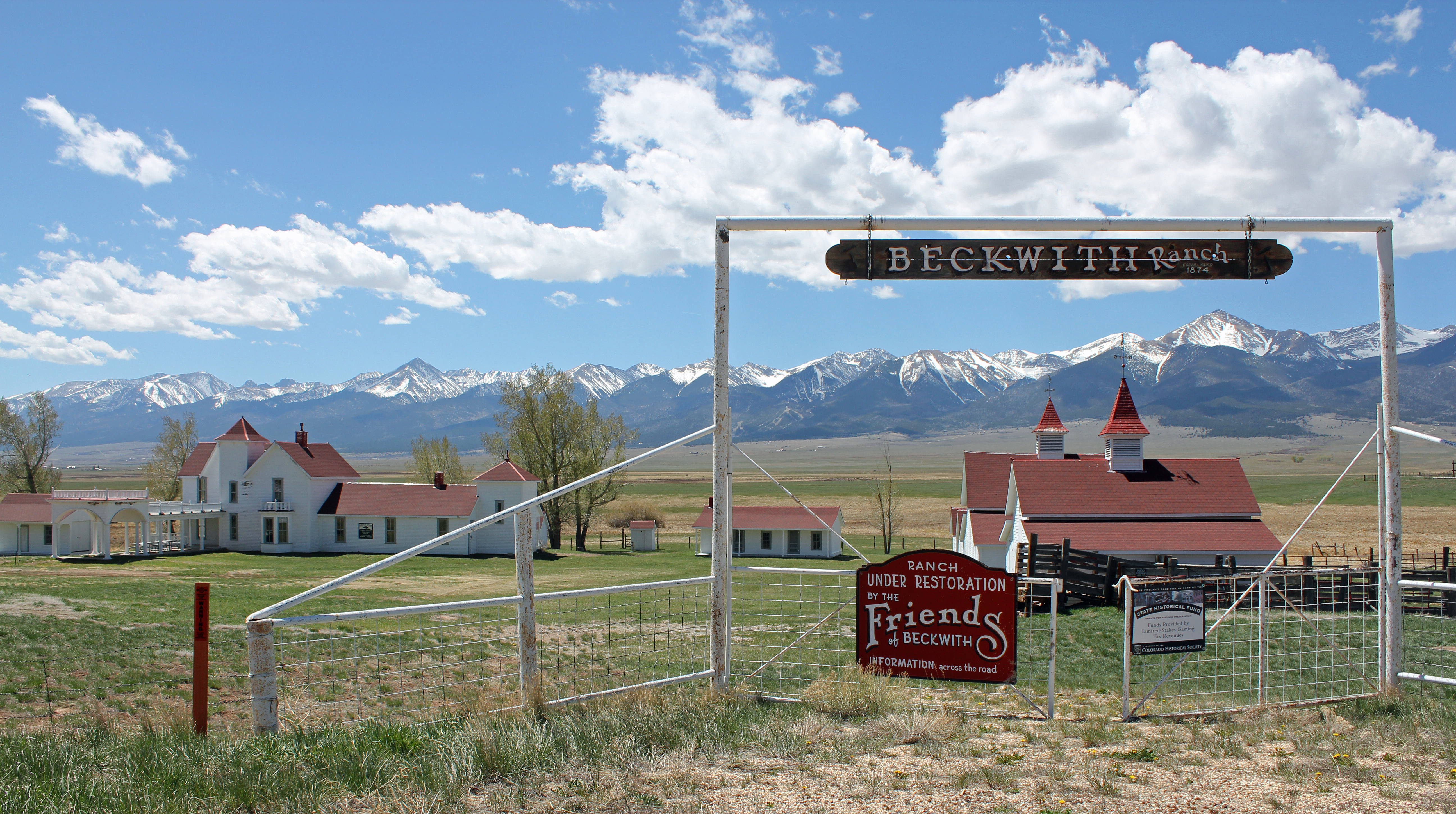 The Beckwith Ranch, located at 64159 State Highway 69 near Westcliffe, Colorado. The ranch is listed on the National Register of Historic Places. The ranch lies in the Wet Mountain Valley, and the mountains in the background are the Sangre de Cristo Mountains.